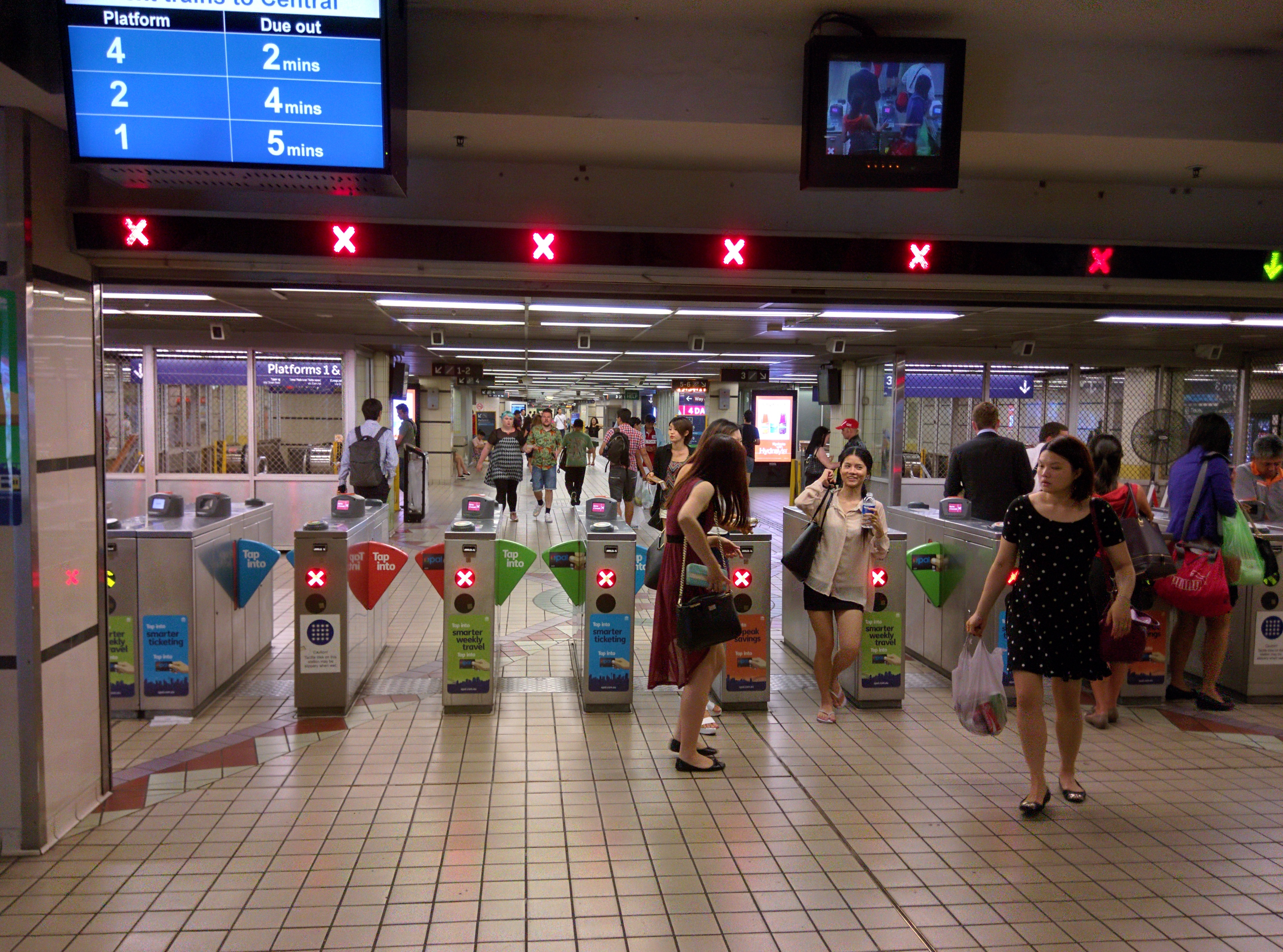 Ticket gates at Town Hall station